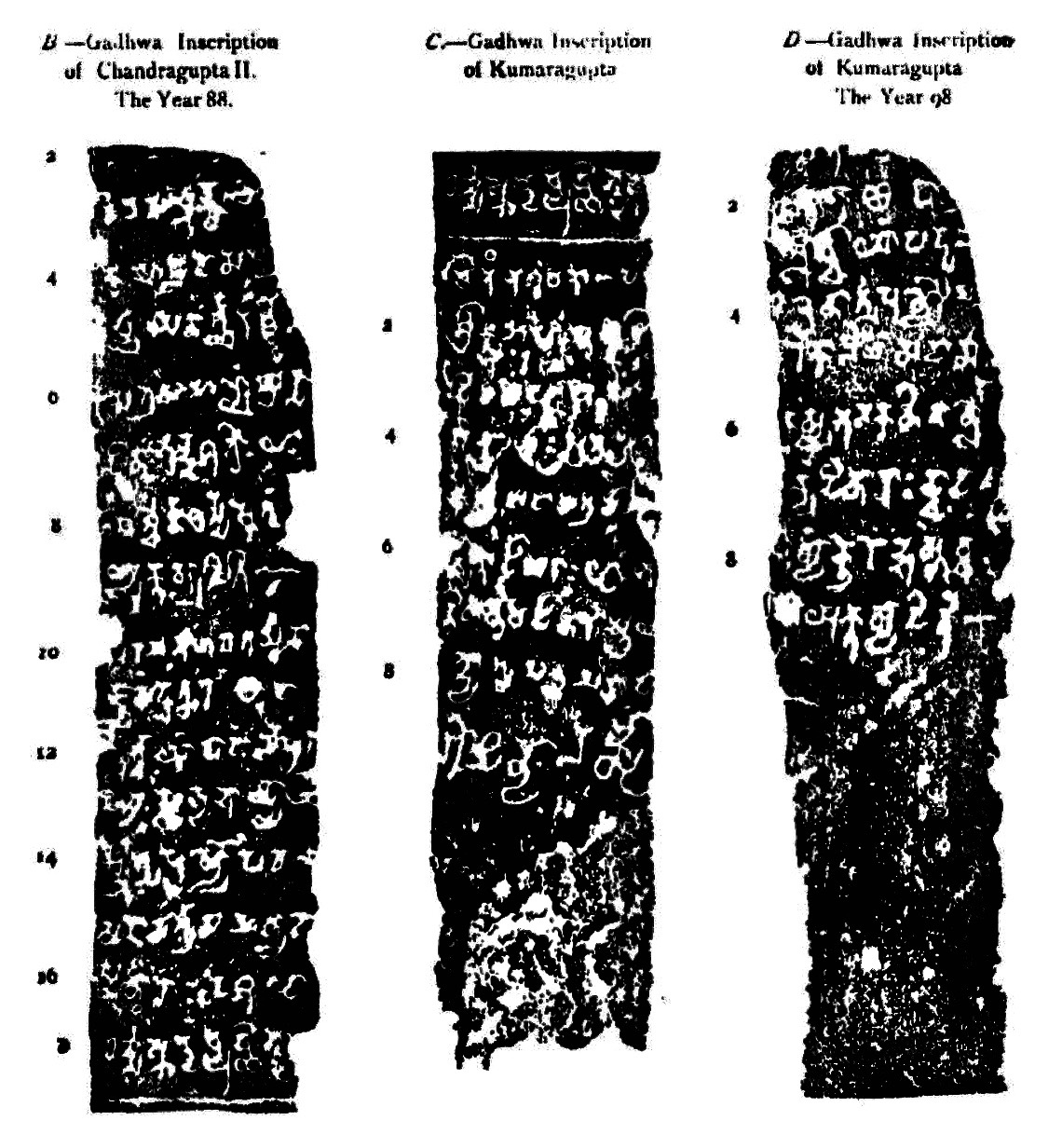 An early Gupta era inscription from ancient India. This is a photograph of a personal copy of plates published by John Fleet in 1888, with Inscriptions Of The Early Gupta Kings And Their Successors, as a part of the Corpus Inscriptionum Indicarum series, Vol. 3. The inscriptions are 2-D art created in or before the 5th-century CE. The publication date of the photographic plates by Fleet (d. 1917) in 1888 makes the work qualify for the PD-Art-100-70 guidelines. Any rights I have, I herewith donate to wikimedia under Creative Commons 4.0 license.